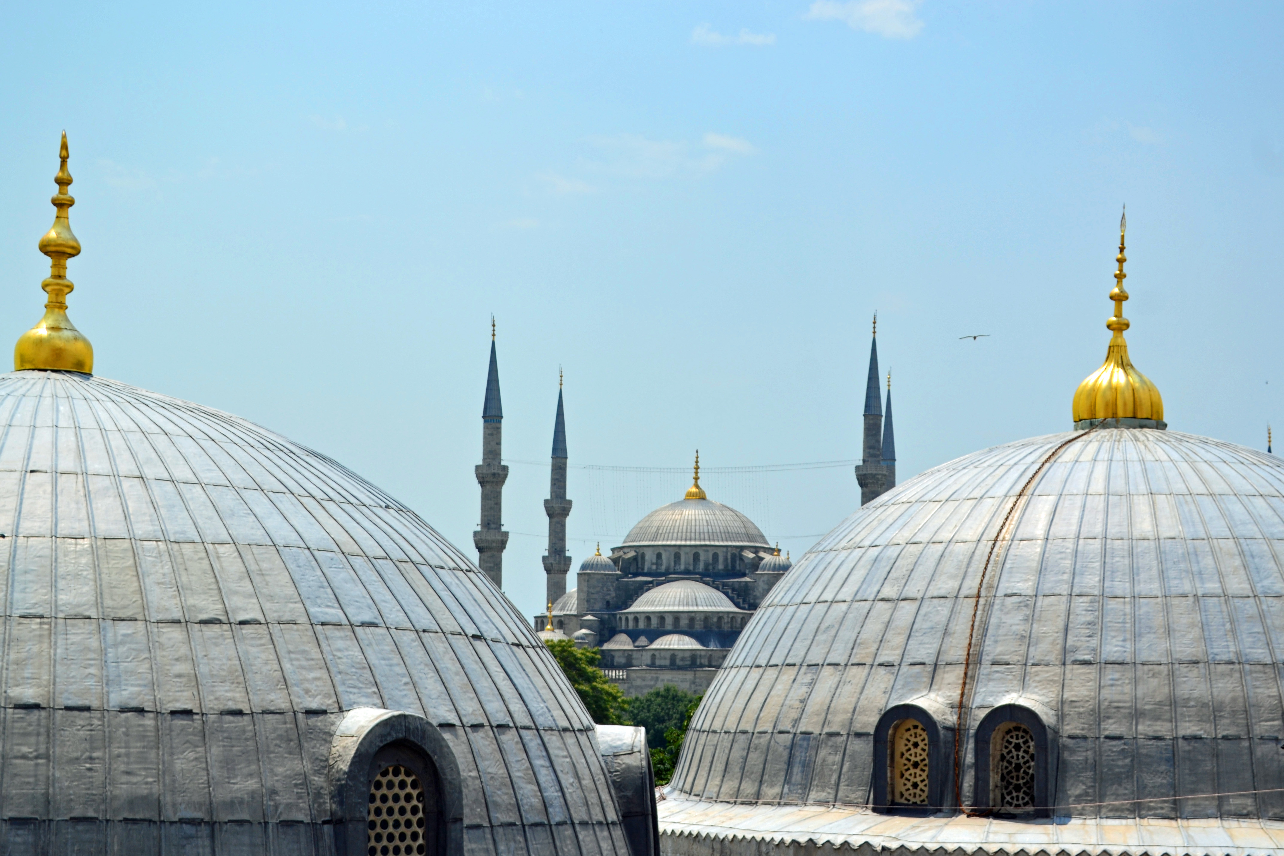 View of Blue Mosque from Hagia Sophia